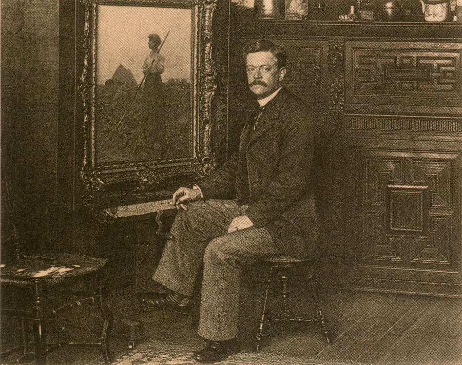 Photograph of Charles Sprague Pearce (1851-1914) in his studio in Auvers-sur-Oise